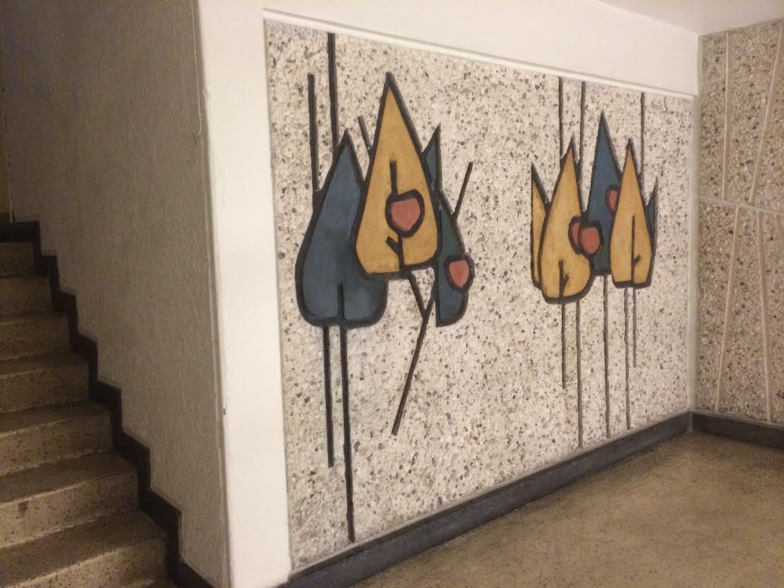 Fresco wall decoration for the insurance company Gjensidige in Trondheim, Norway. Credit as "Fresco by Lars Tiller".